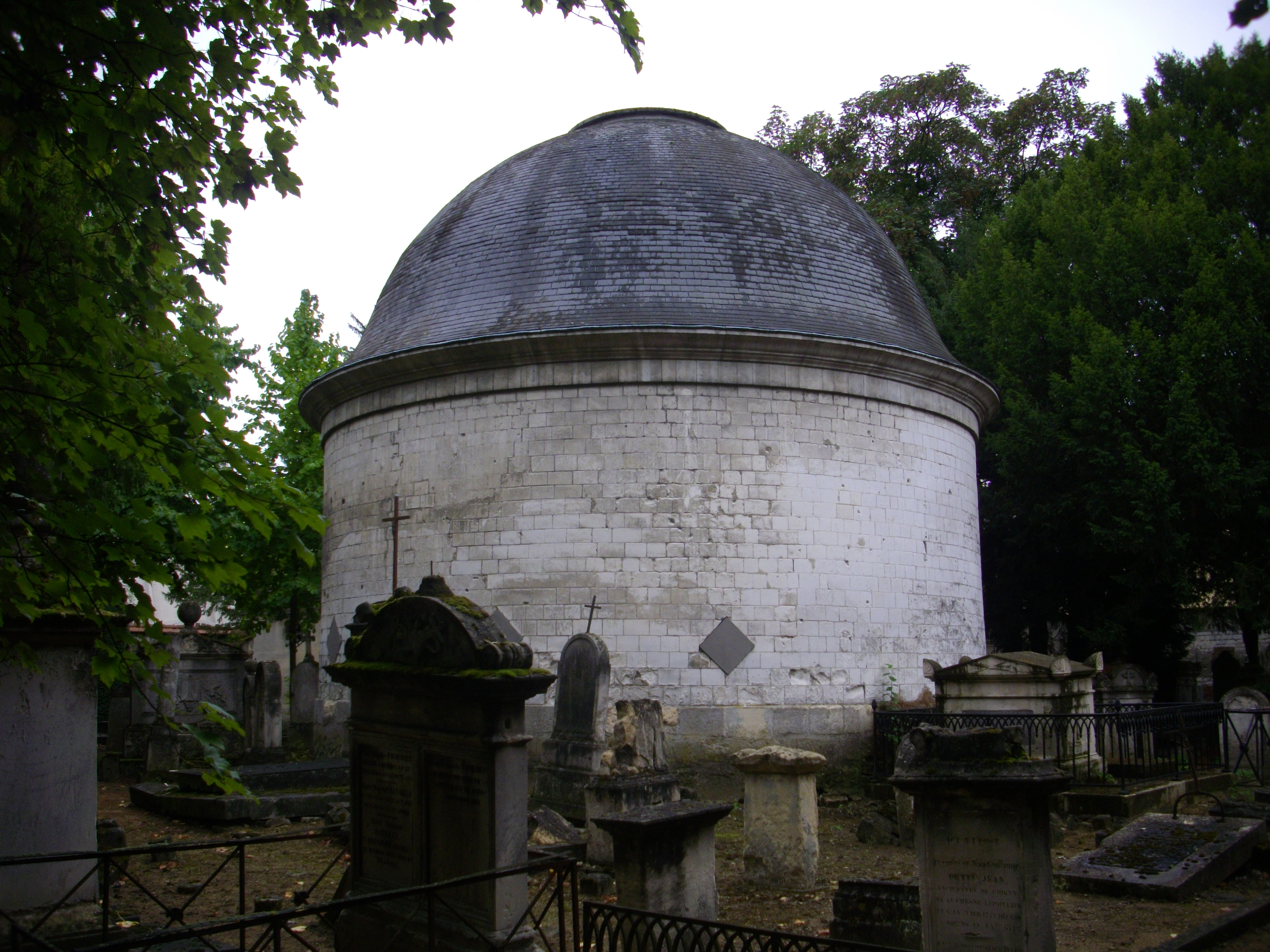 Holy Cross chapel, North cemetery, in Reims (Marne, France) .